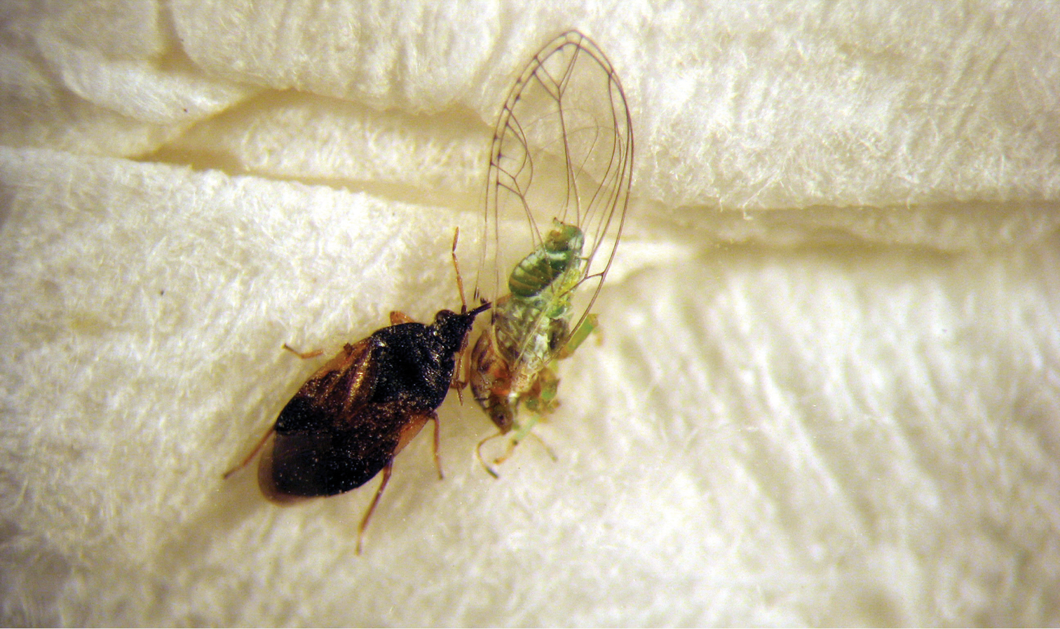 Orius minutus feeding on Trioza rhamni.